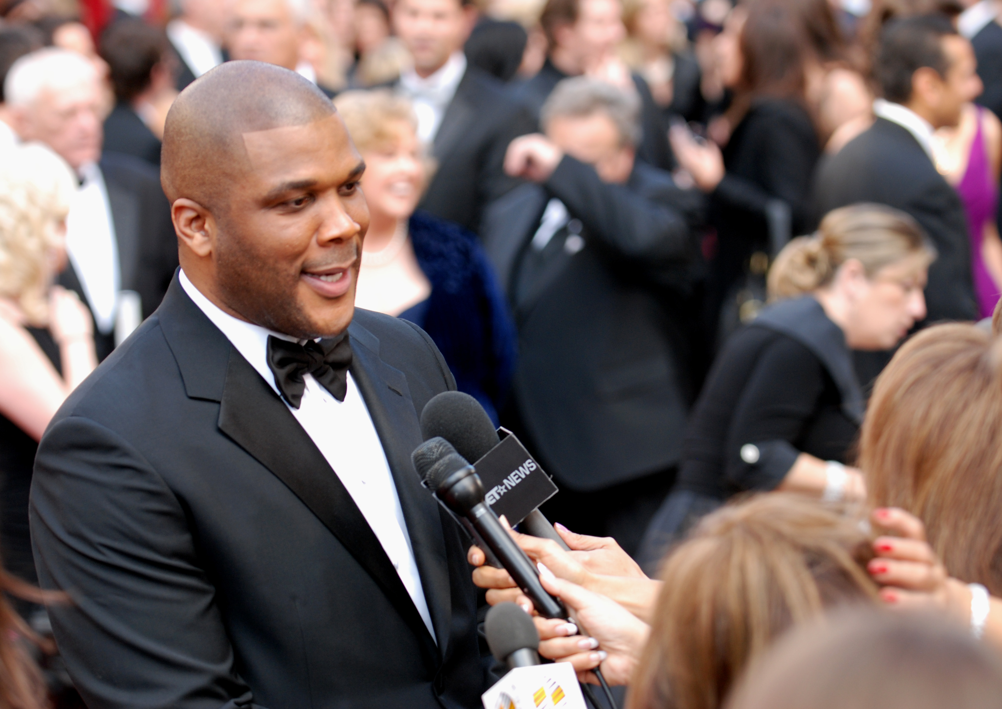 Tyler Perry mixes it up with the media on the red carpet at the 82nd Academy Awards.